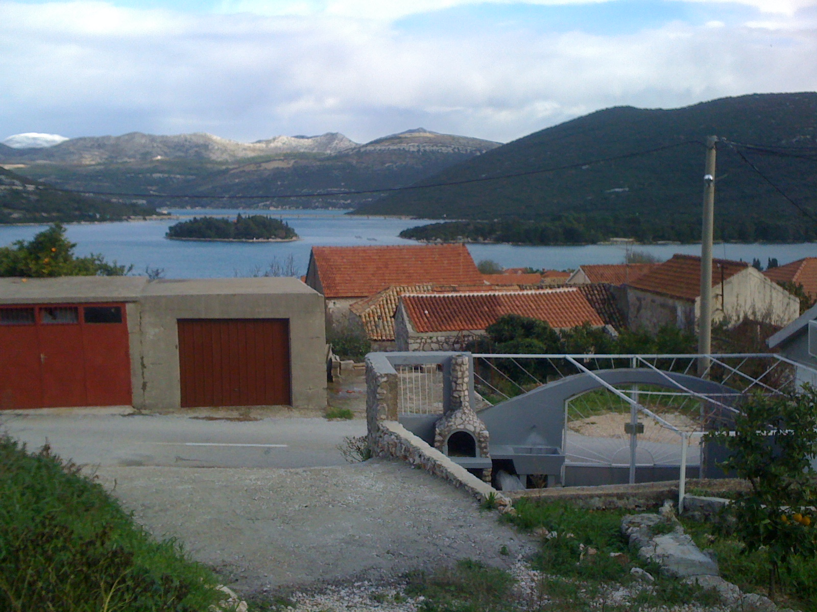 Hodilje and islands in Mali Ston channel with Bistrina bridge in background